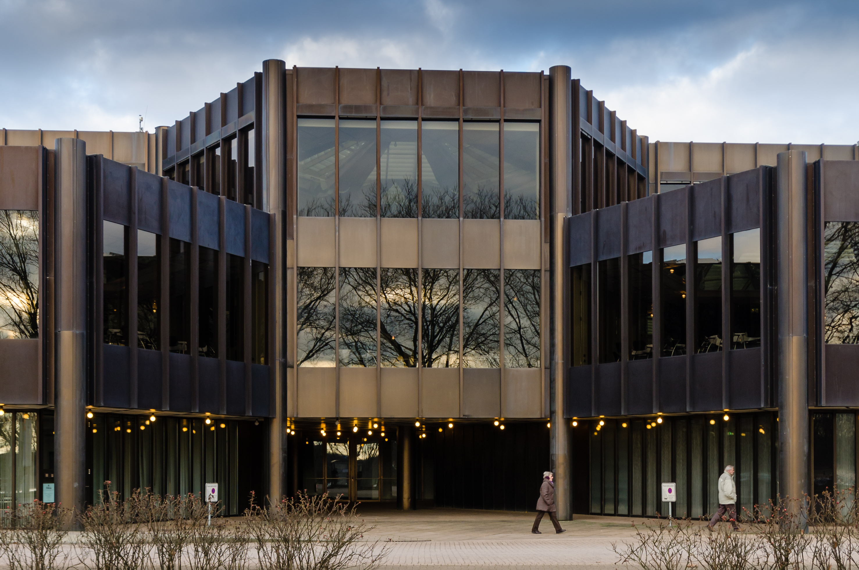 Entry of Congress Center Düsseldorf